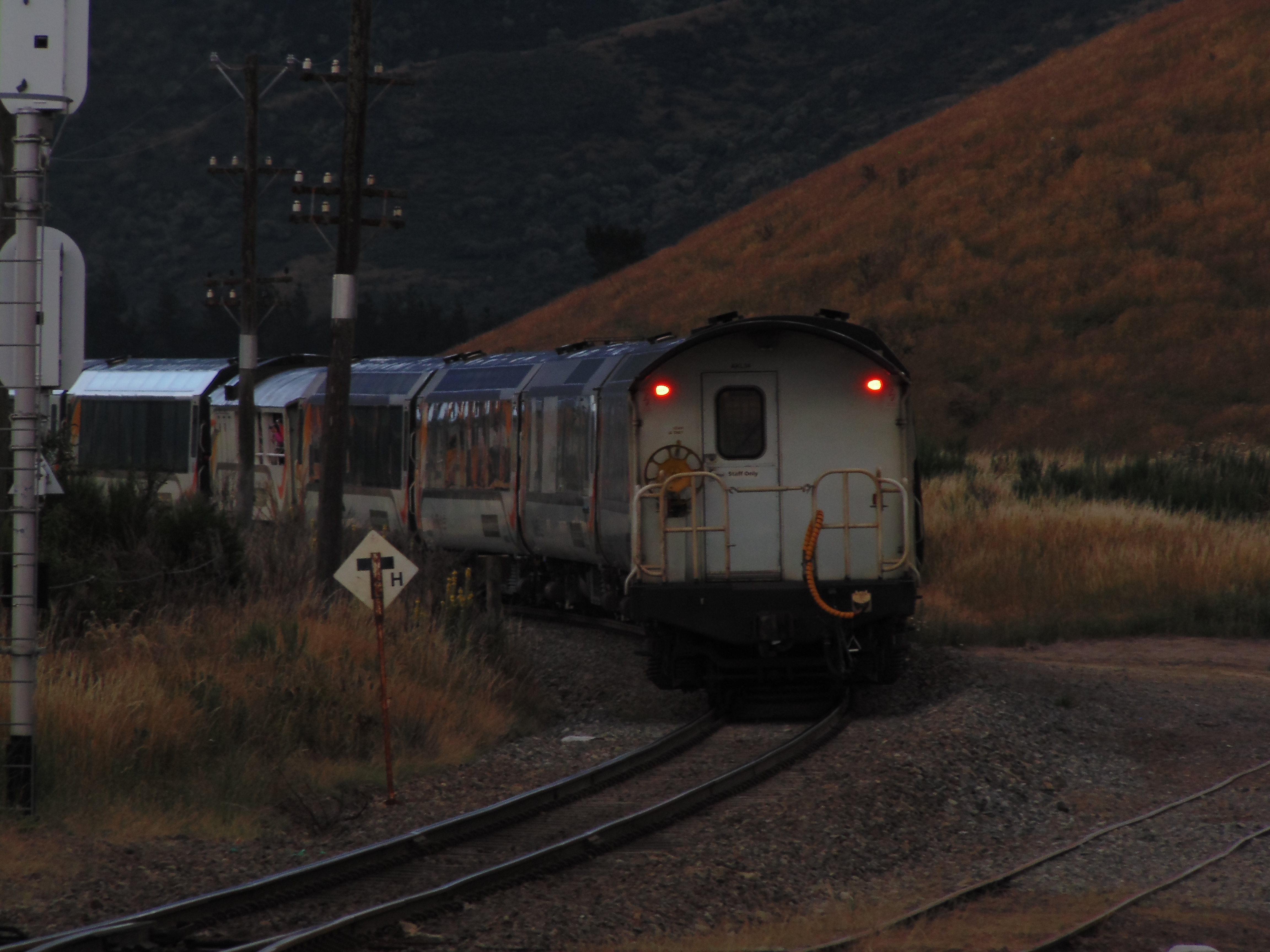 AK carriages from the TranzAlpine..